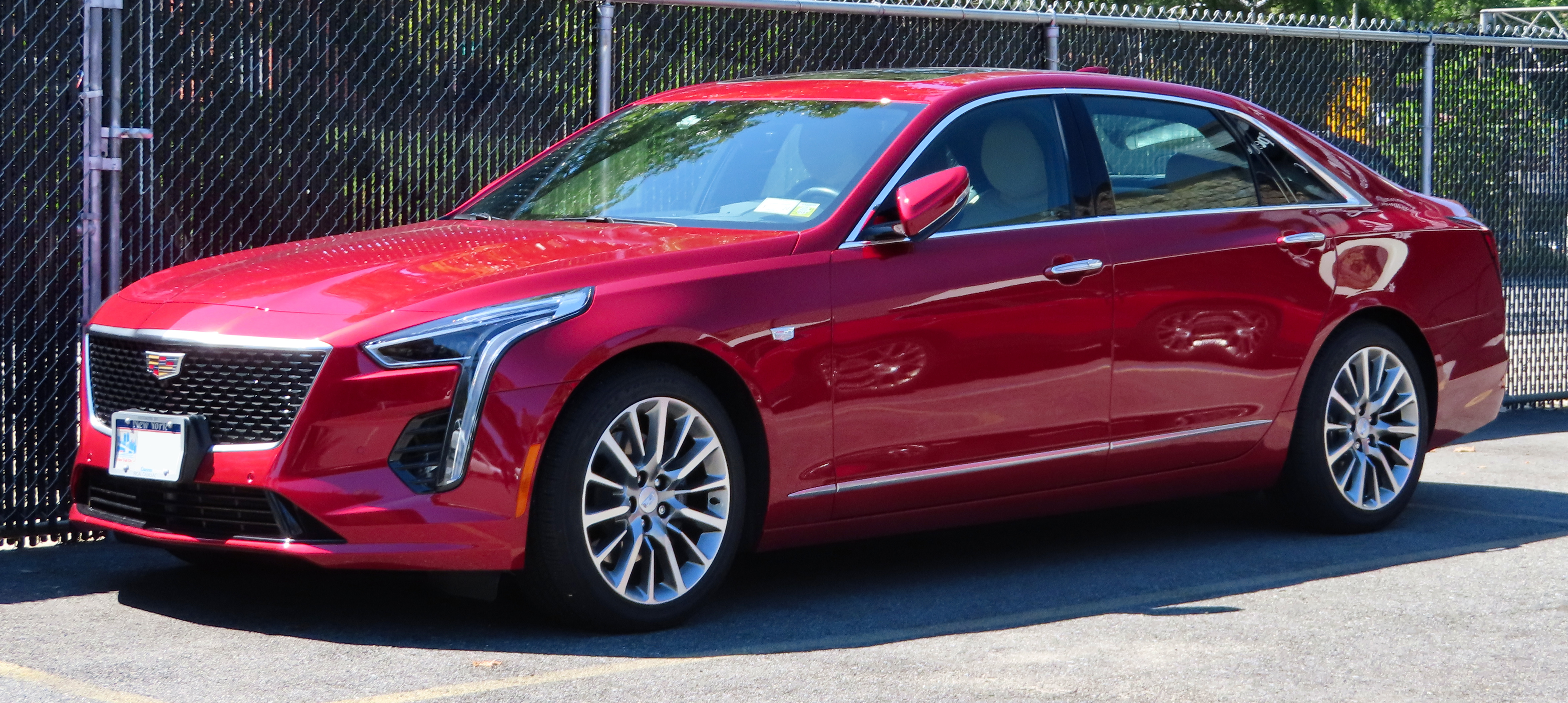 A 2019 Cadillac CT6 photographed in Queens, New York, USA